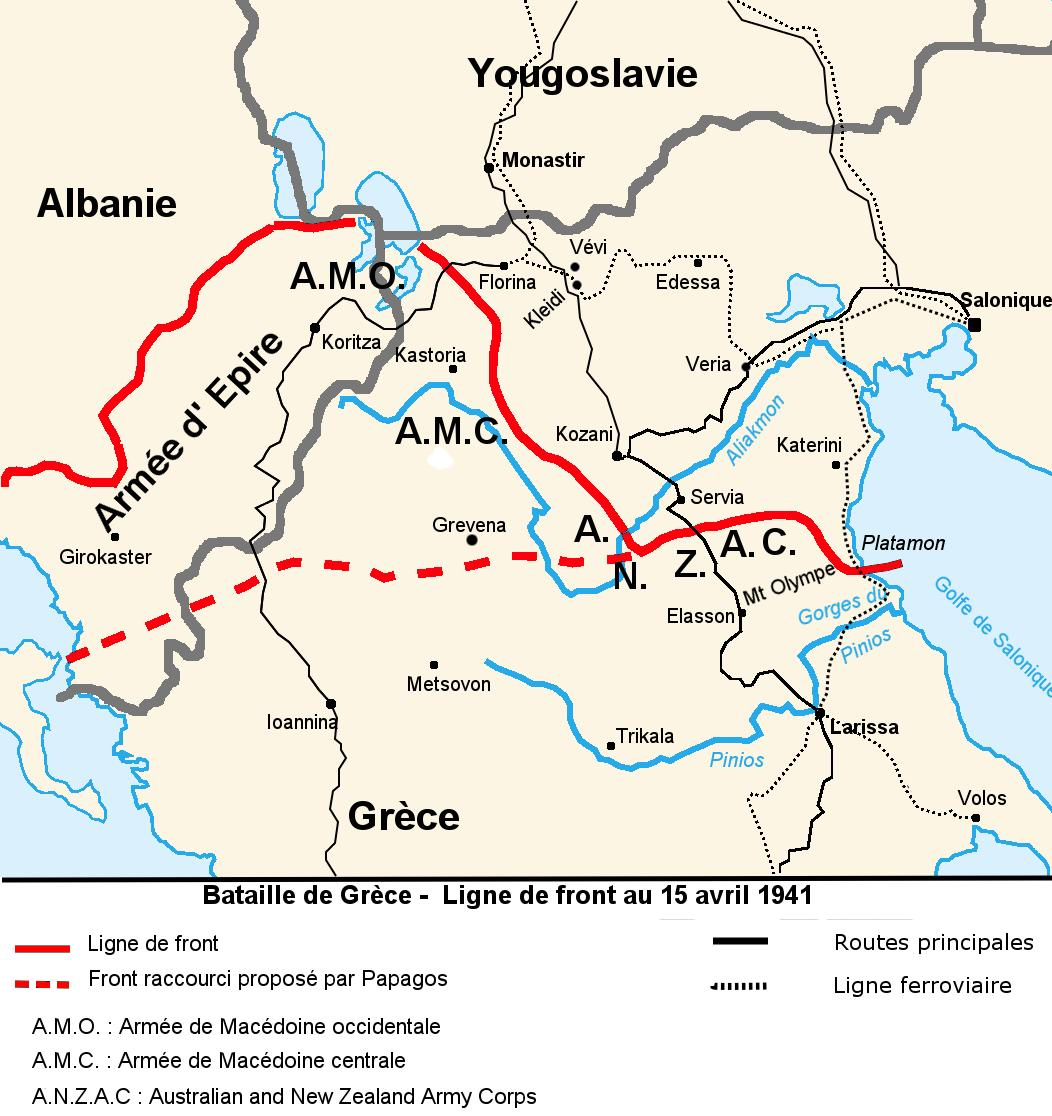 Map in French of the battle of Greece in April 1941, showing the front line on 15th April and the shorter line proposed by General Papagos.